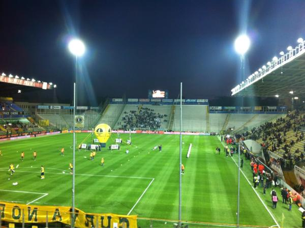 Lazio fans in the Curva Sud from the perspective of the Curva Nord